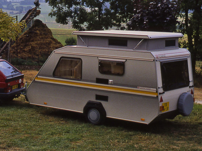 Kip Kompakt 400 (1988)